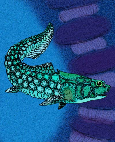 Reconstruction of the palaeacanthaspid acanthothoracid placoderm, Romundina stellina, from the Early Devonian of Canada